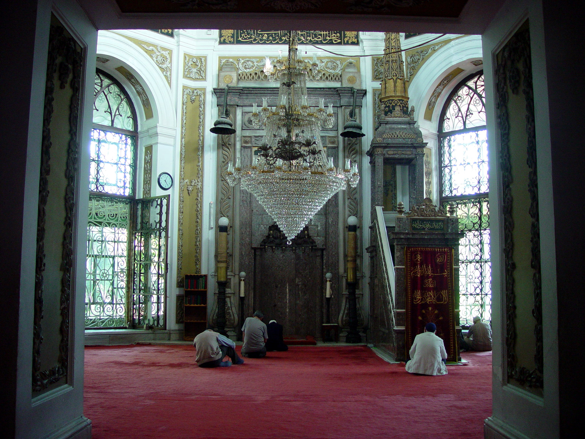 Interior of Zeyrek Mosque. Istanbul Turkey